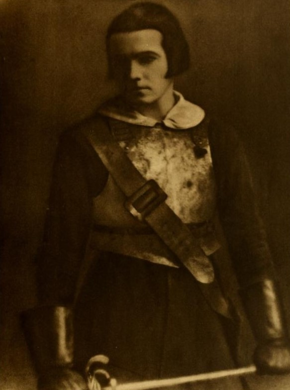 Richard Barthelmess as Karl Van Kerstenbroock in the American drama film The Fighting Blade (1923). Printed in Motion Picture Classic, October 1923 with the caption: "Albin has gone back to the immortal manner of Rembrandt for the inspiration for this portrait of Richard Barthelmess in the title rôle of The Fighting Blade."